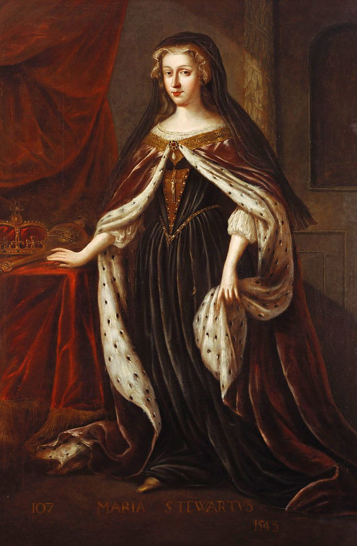 Portrait of Mary, Queen of Scots (1542-1587) Wearing a green dress with a gold stomacher and crucifix, and a purple cloak trimmed with ermine; she rests her right hand on a table on which are placed the crown, orb and sceptre. The only female figure in de Witt's Kings of Scotland series, painted for Charles II's restoration of Holyrood Palace, Edinburgh.